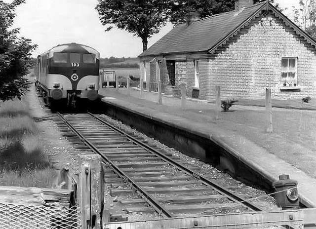 Weed spraying train at Kilmainham Wood, near to Kilmainham Wood, Meath, Ireland. A Sulzer locomotive heads the annual weed spraying train J3284 : Weed control train at Mossley past the closed station at Kilmainham Wood (between Kingscourt and Navan). The station is remote from the village N7889 : Kilmainhamwood, Co. Meath .